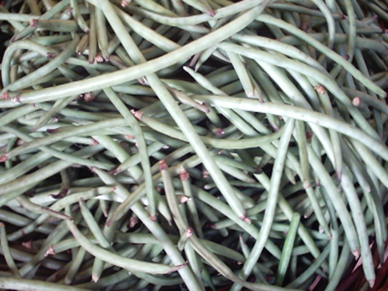 Cowpea beans Black-eyed beans, Scientific name Vigna unguiculata, Lobia in Hindi , Alasandalu in Telugu, Alasande in Kannada, Chawli in Gujarati/Marathi